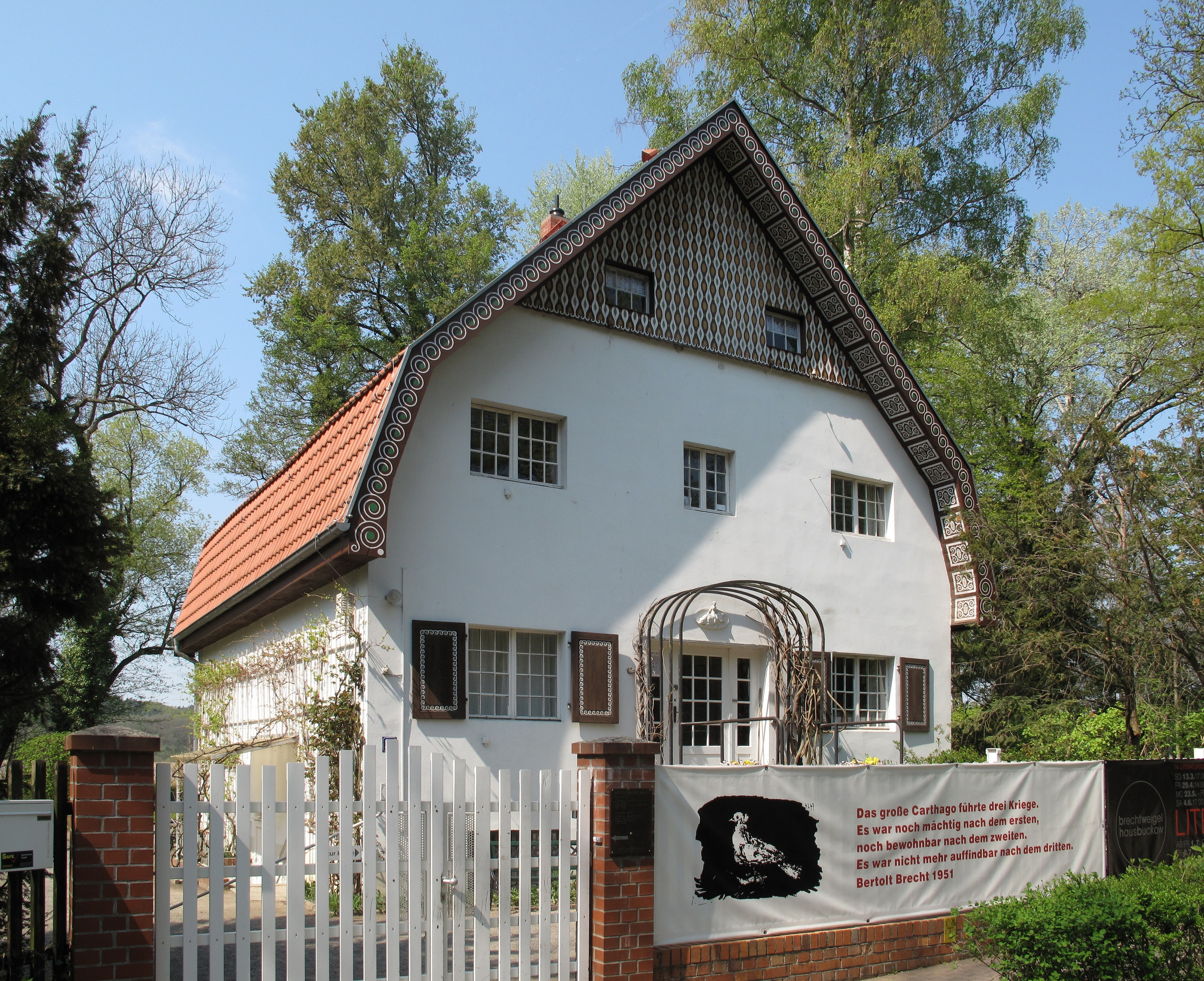 Listed Brecht-Weigel-Haus at the eastern shore of the Schermützelsee in the Bertolt-Brecht-Straße 29/30 in Buckow, District Märkisch-Oderland, Brandenburg, Germany. Bertolt Brecht and Helene Weigel were working in the summerhouse since 1952, Helene Weigel also after the death of Brecht in 1956. Since 1977 the house is used as museum and memorial to Brecht and Weigel. Listed is the whole ensemble, including some buildings as well as the garden with sculptures, sea-balustrade, water tower, boathouse and landing stage.